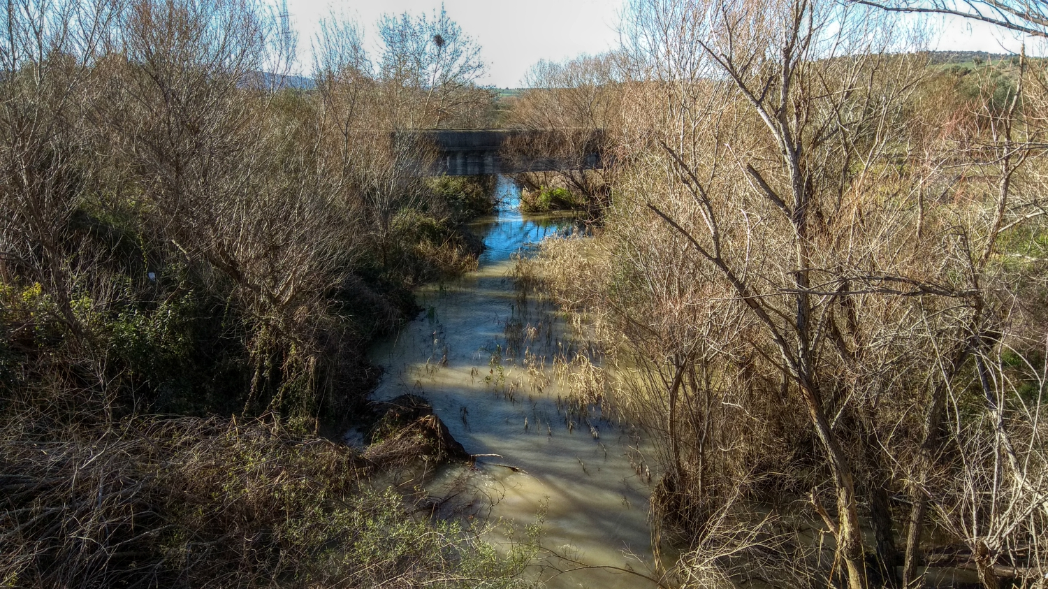 Asopos river at the pass of ancient Tanagra. Saint Thomas bridge